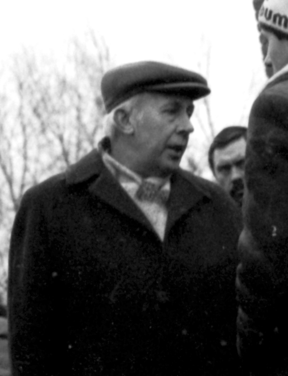 Eduardas Eismuntas, 1990-01-12 in Bridai, Lithuania